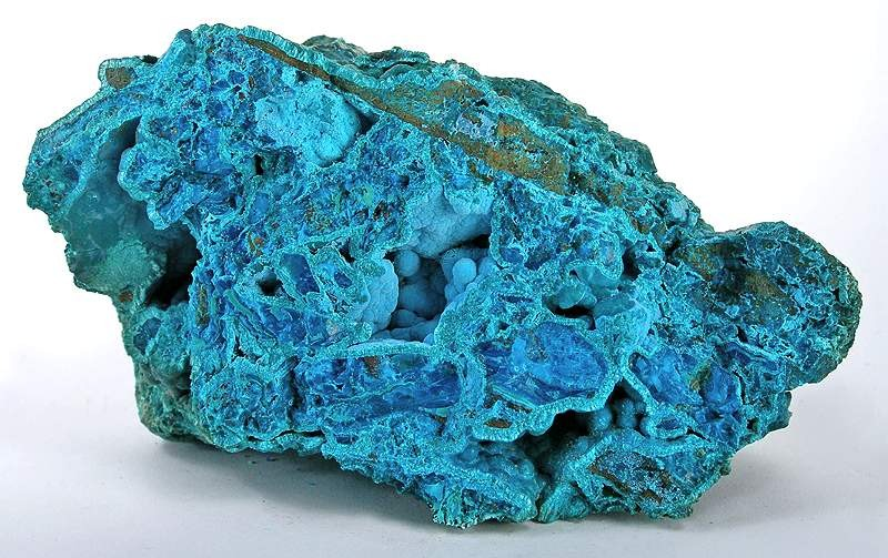 Chrysocolla, Tyrolite, Clinotyrolite Locality: San Simon Mine, Santa Rosa-Huantajaya District, Iquique Province, Tarapacá Region, Chile (Locality at ) Size: 14.1 x 8.0 x 7.8 cm. This specimen was presented to the academy by the famed Dr. Domeyko in the late 1800s, who did much work on the rare minerals of Chile and Argentina. Regardless of the chemistry, the specimen has merit as a display piece of beautiful copper combinations from Chile. This piece has beautiful, powder-blue chrysocolla forming as stalactitic growths and as a thin carpet in the few hollow vugs inside a literal boulder of nearly solid tyrolite. On analysis by modern equipment, the matrix material shows to be tyrolite, clinotyrolite, and possibly other related species admixed (XRAY and powder, Bart Cannon's lab, 2008). However, apparently the official mineralogy of tyrolite classification is confusing and has changed over time. Clinotyrolite is often considered a species by many people, though without IMA approval. I quote MINDAT's page on the matter verbatim to make sure I do not mistakenly convey the science: Since it is well-known that also carbonate-free varieties of tyrolite exist, "tyrolite" may actually represent two or more minerals/polytypes. At least two monoclinic polytypes of tyrolite are known (Krivovichev et al., 2006); one of them seems to be identical to "clinotyrolite". Note that this is the first report of the locality to MINDAT for tyrolite occurrence, but it is likely that this rare species is present on other old specimens of "chrysocolla" from Chile. Ex. Academy of Natural Sciences Philadelphia Collection.